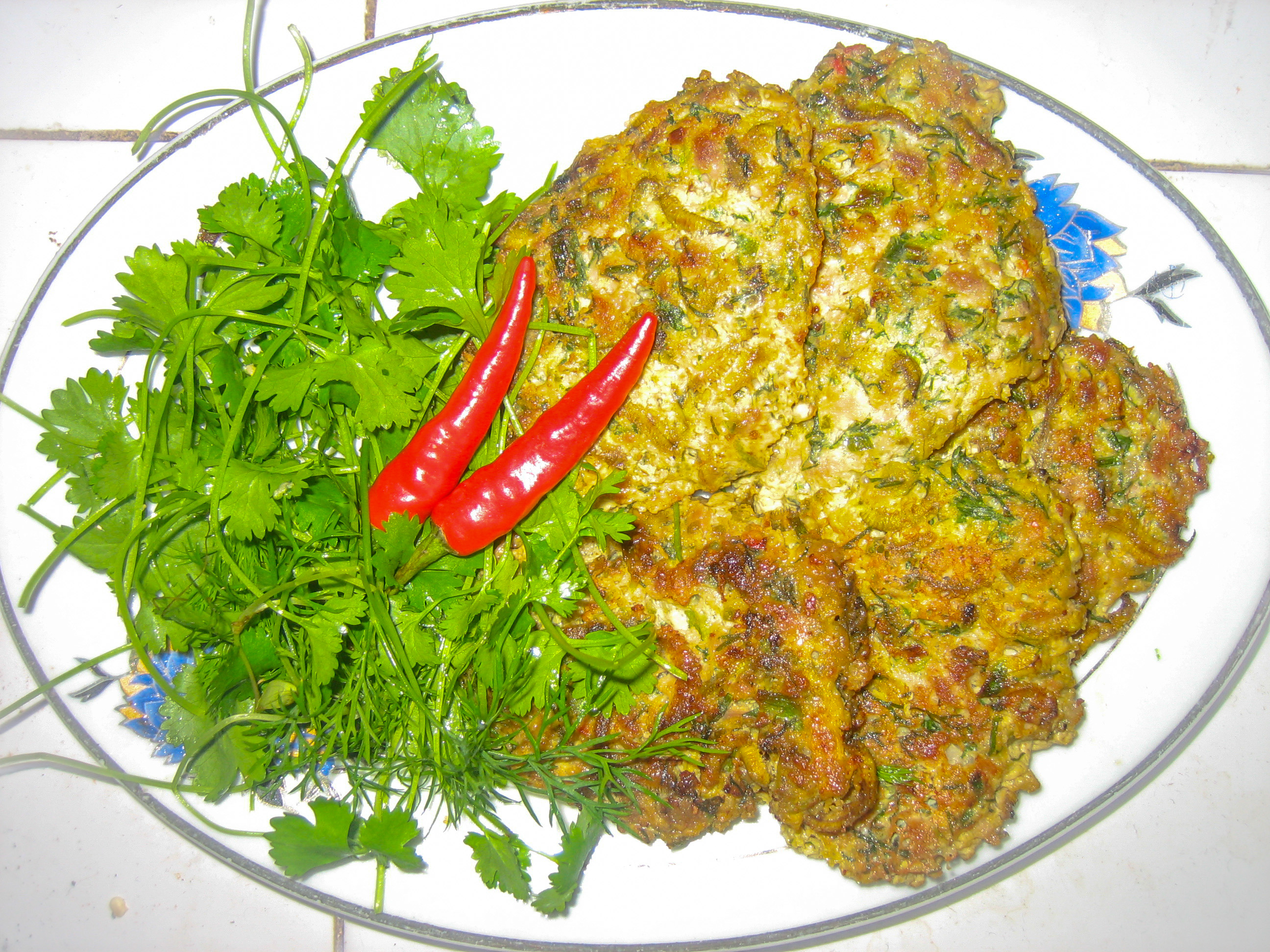 Grilled clam worms with the ingredients: clam worms, lean meat shavings, eggs, citrus peel, onion, cumin and chili peppers. Served with coriander, pepper, salt and nước chấm.